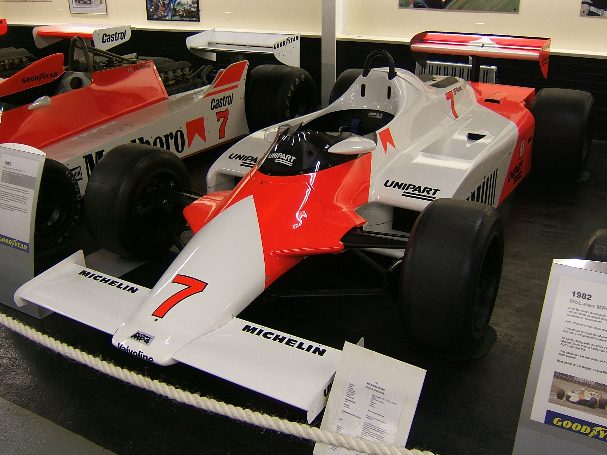 The 1981 McLaren MP4 Formula One car. In the Donington Grand Prix Collection museum, Leics., UK.